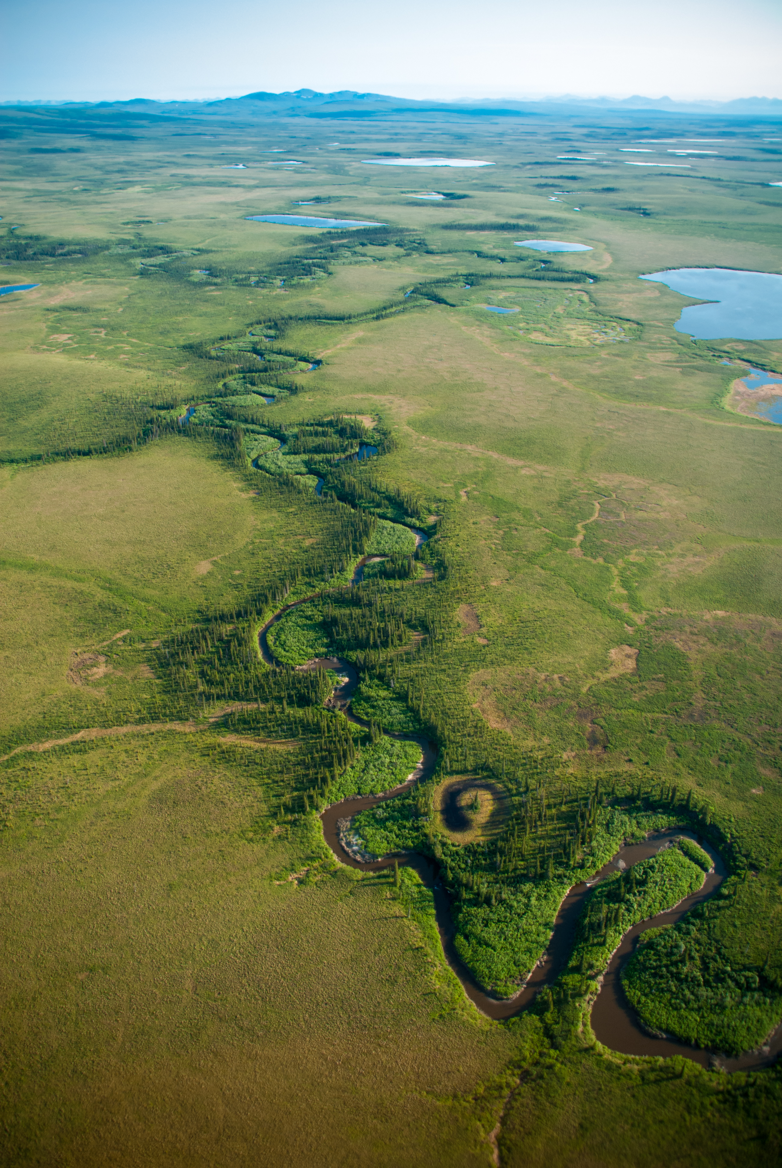 A unnamed river snakes its way through the tundra in southeast Cape Krusenstern National Monument. Rivers are so numerous and remote in Cape Krusenstern and other WEAR parks that the U.S. Geological Survey has not named many of them.